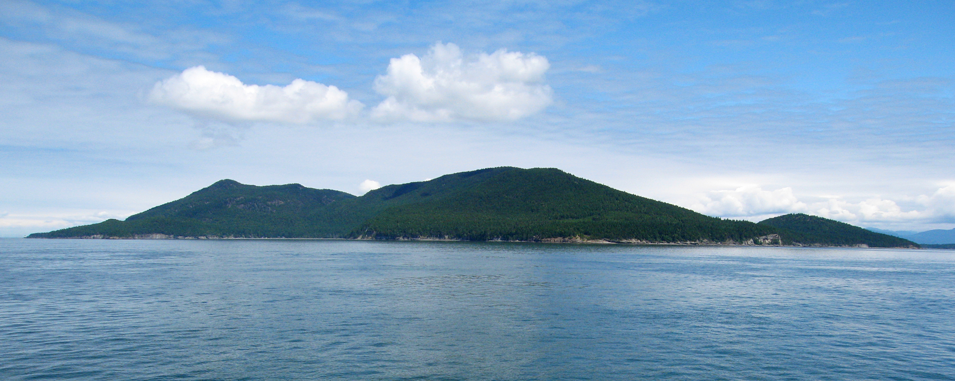 Cypress Island from the middle of Rosario Strait, aboard ferry from the San Juan Islands to Anacortes, Washington.